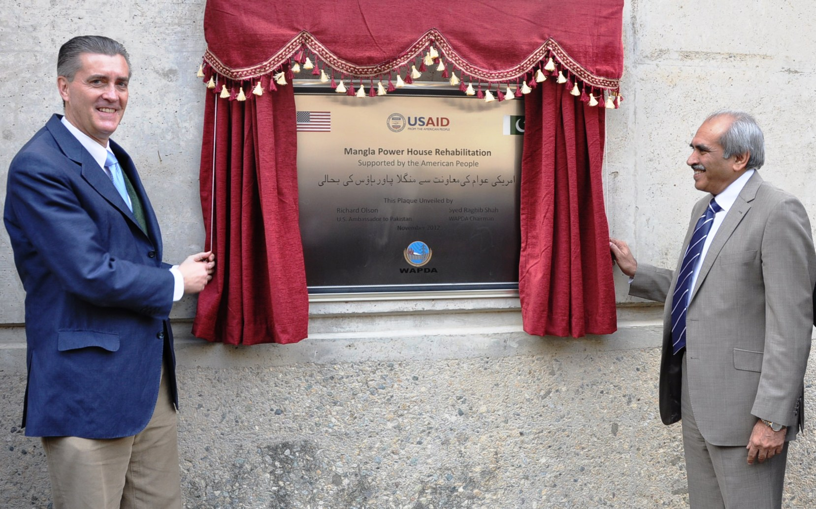 U.S. Ambassador Richard Olson and Wapda Chairman Raghib Shah unveiling the plaque